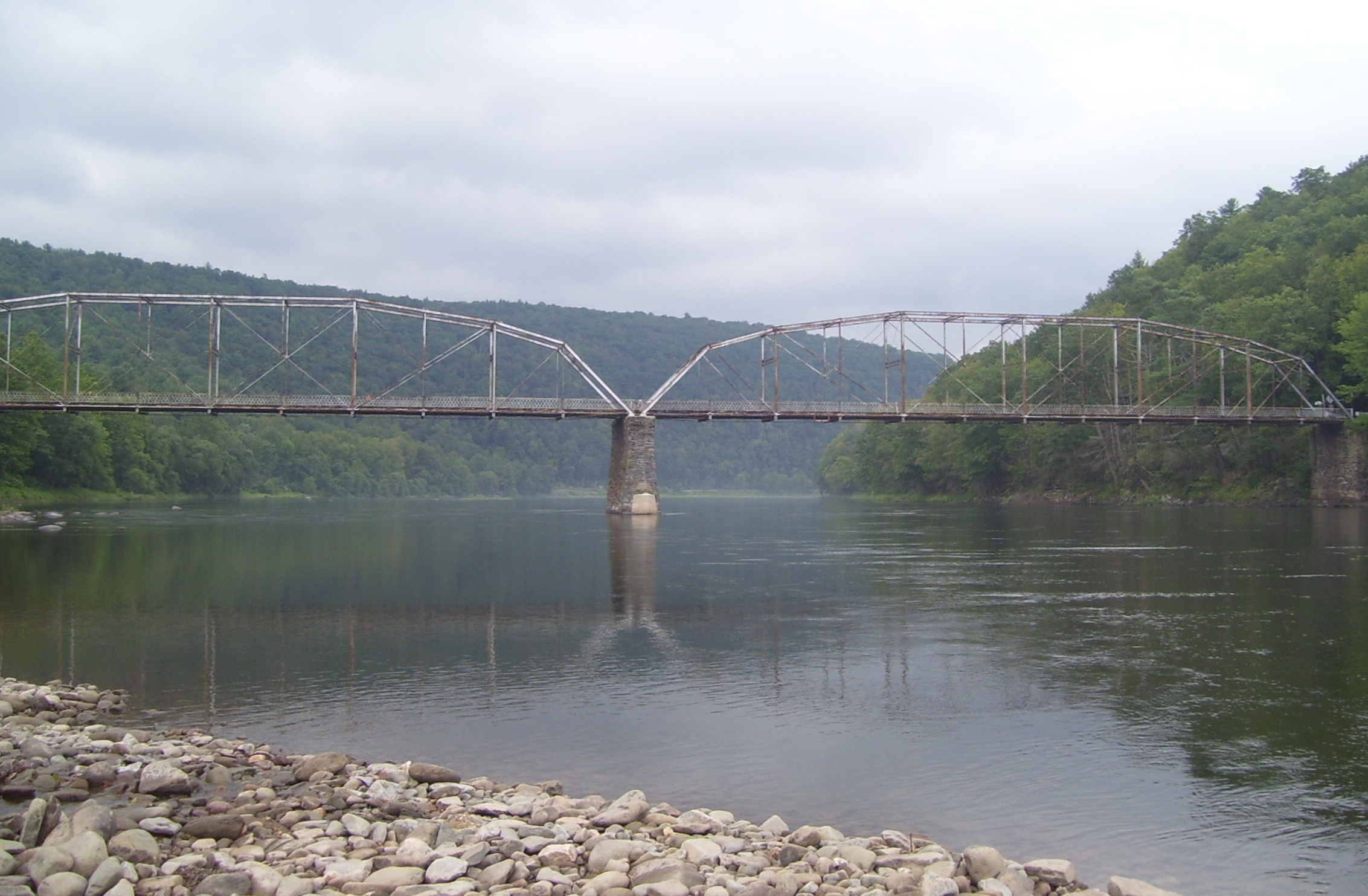 The Pond Eddy Bridge from the New York bank, slightly upriver (west).